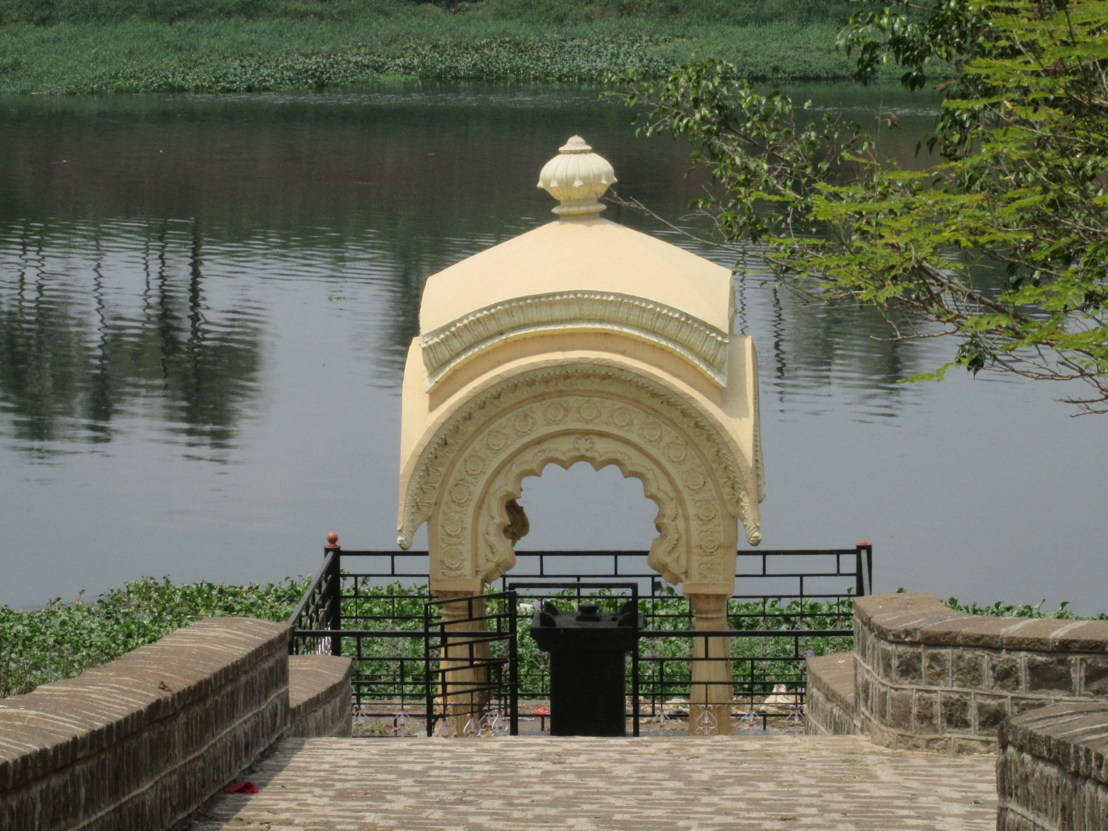 A memorial marking the death place of Madhavrao Ballal Peshwa (18th century Indian Premier, Statesman, Patriot)